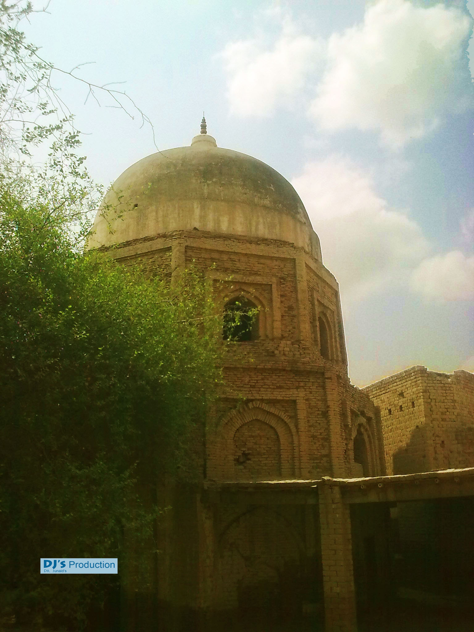 Tomb of Mai Maharban This is a photo of a monument in Pakistan identified as the PB-111